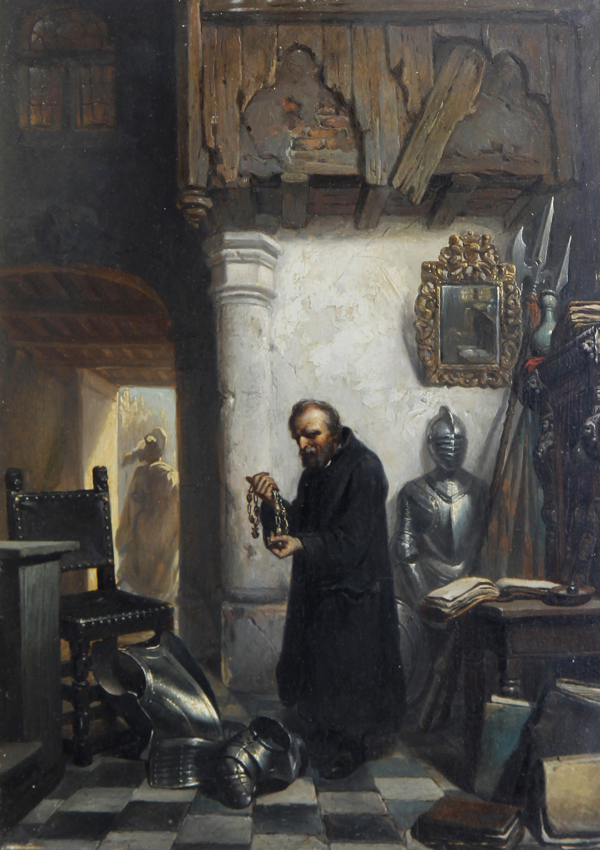 The arms dealer. Signed Josef Lies. Oil on panel, 35 x 26 cm